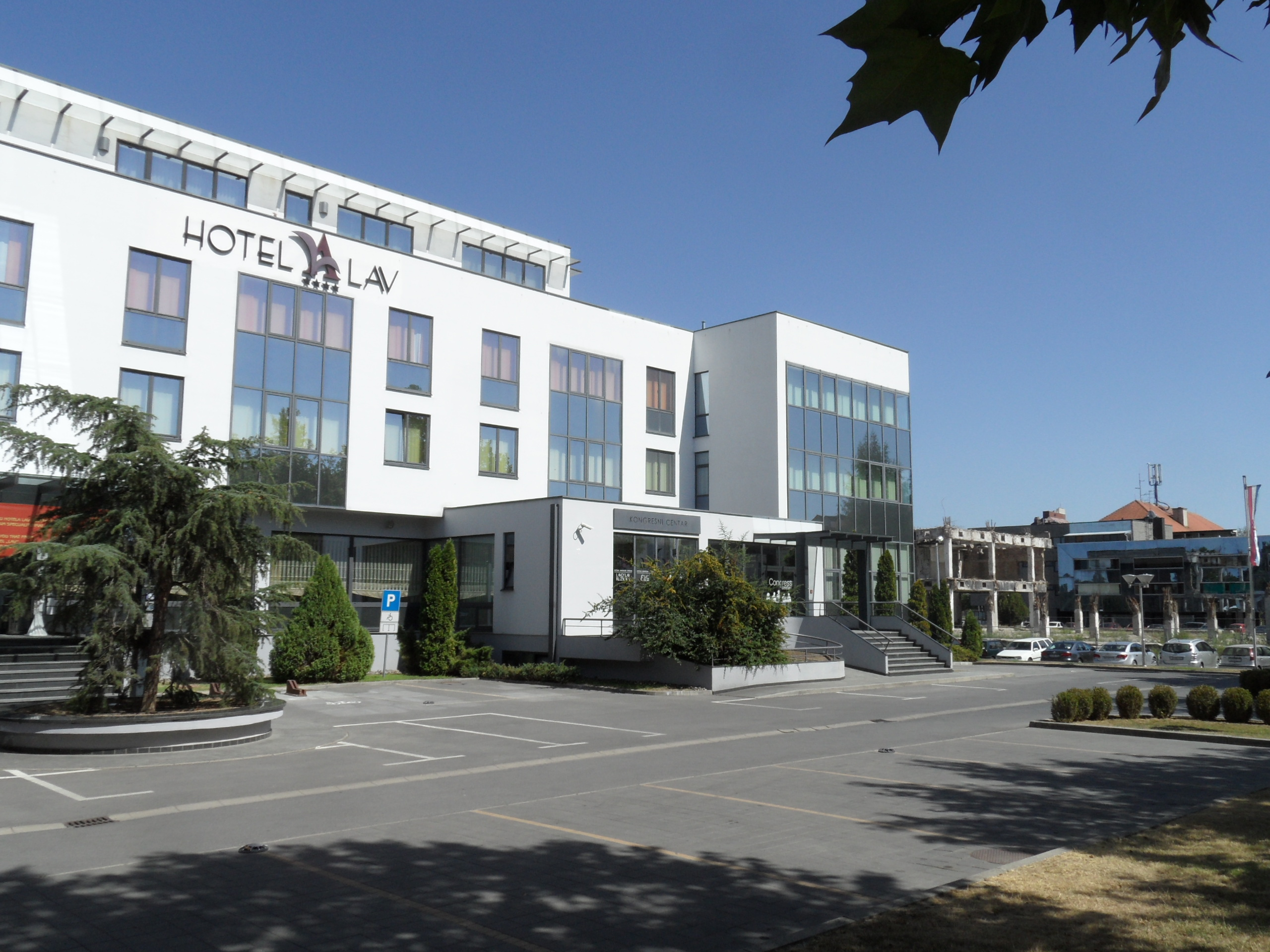 Vukovar, Croatia, Hotel Lav